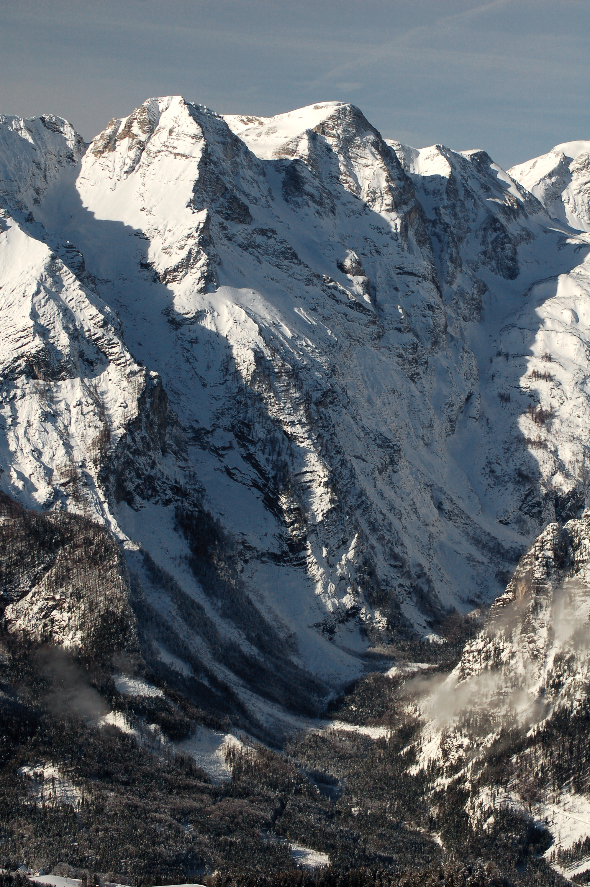 Totes Gebirge, view heading west. Down the valley is the Dietlhölle, behind Kleiner Hochkasten (2352m) and Großer Hochkasten (2389m) in Styria.